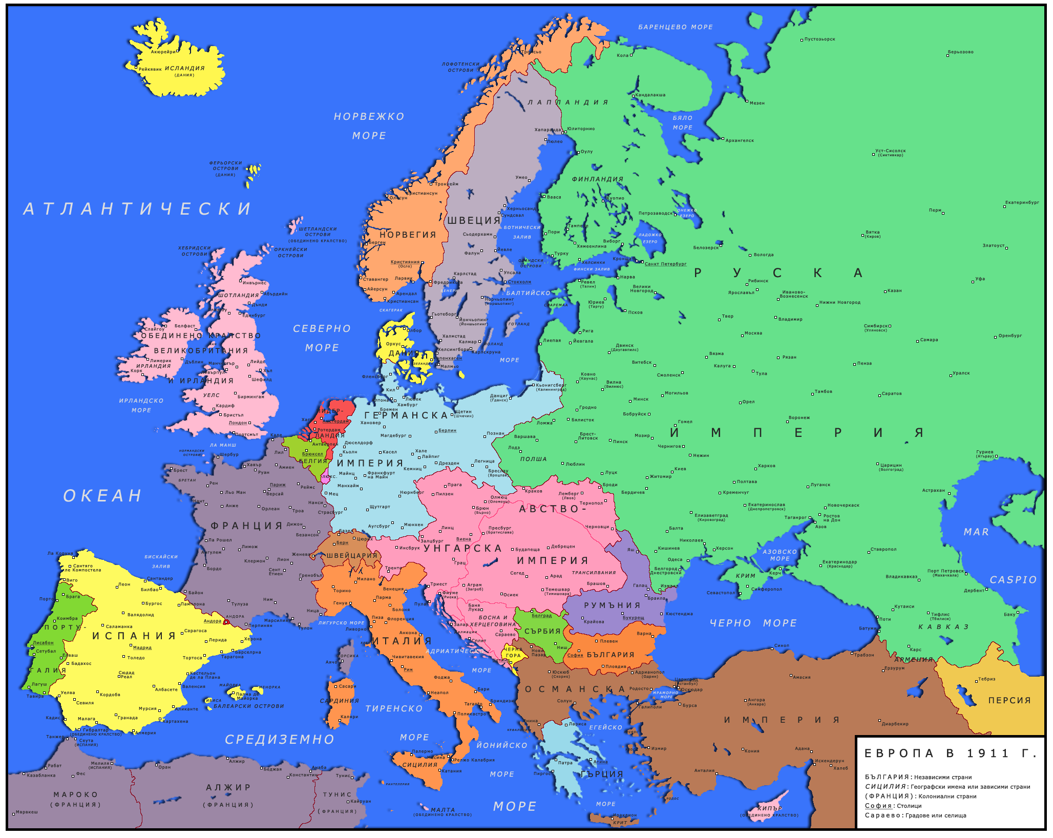 Europe in 1911, in Bulgarian Note:A city name into brackets is the modern name used in Bulgarian